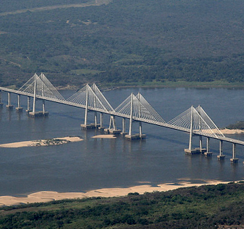 The Second Orinoco crossing or Orinoquia Bridge is a combined road and railway bridge over the Orinoco River near Ciudad Guayana, Venezuela